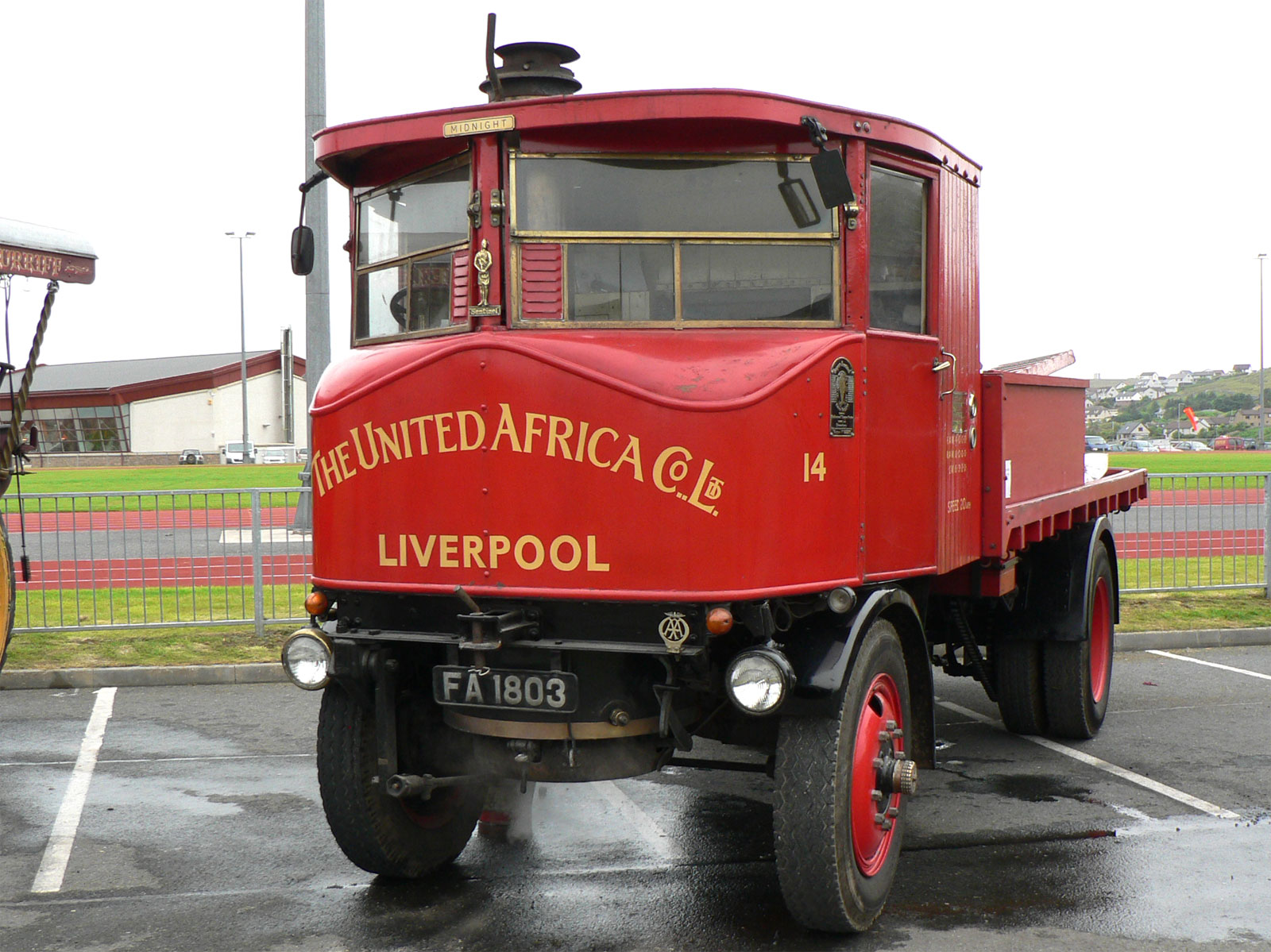 1924 Super Sentinel Steam Waggon Number 5407 Built 1924 Registration FA 1803 Class SUP Name Midnight 1924 Super Sentinel FA1803, works no. 5407, photographed at the Shetland Classic Motor Show